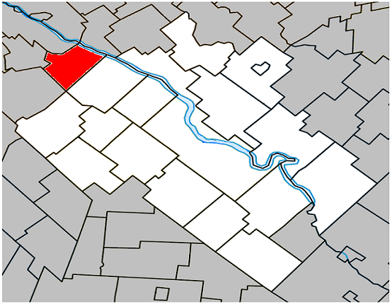 Location of Saint-Pie-de-Guire, Quebec within Drummond Regional County Municipality.